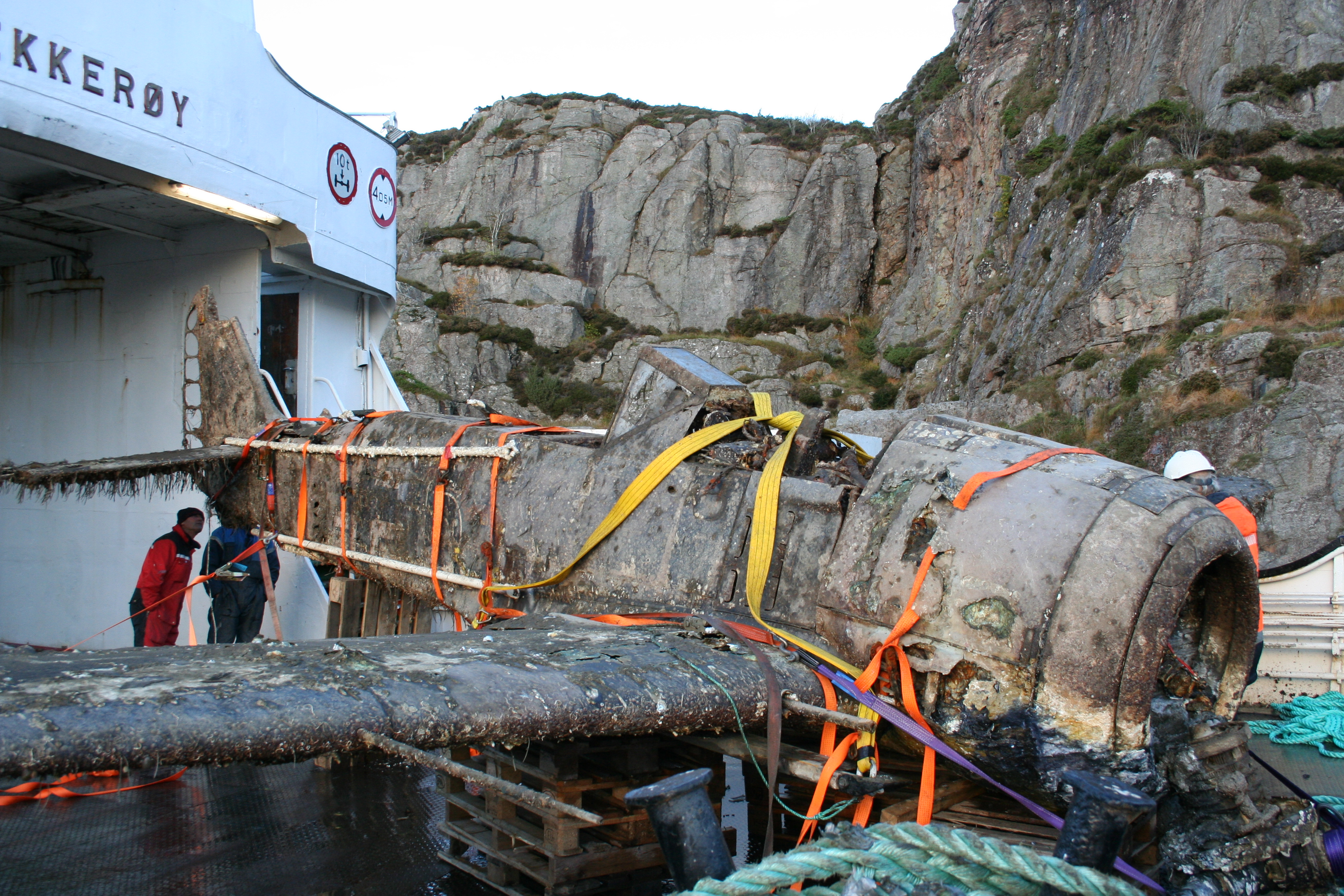 The Focke Wulf 190 Yellow 16, photographed just after being salvaged from sea outside Sotra, 1 November 2006.